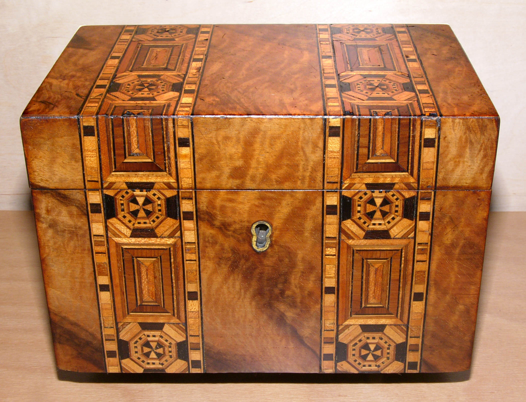 English tea box